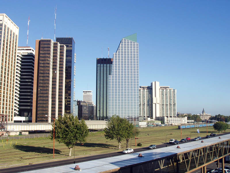 Buildings in Retiro (Catalinas Norte), Buenos Aires. 2004